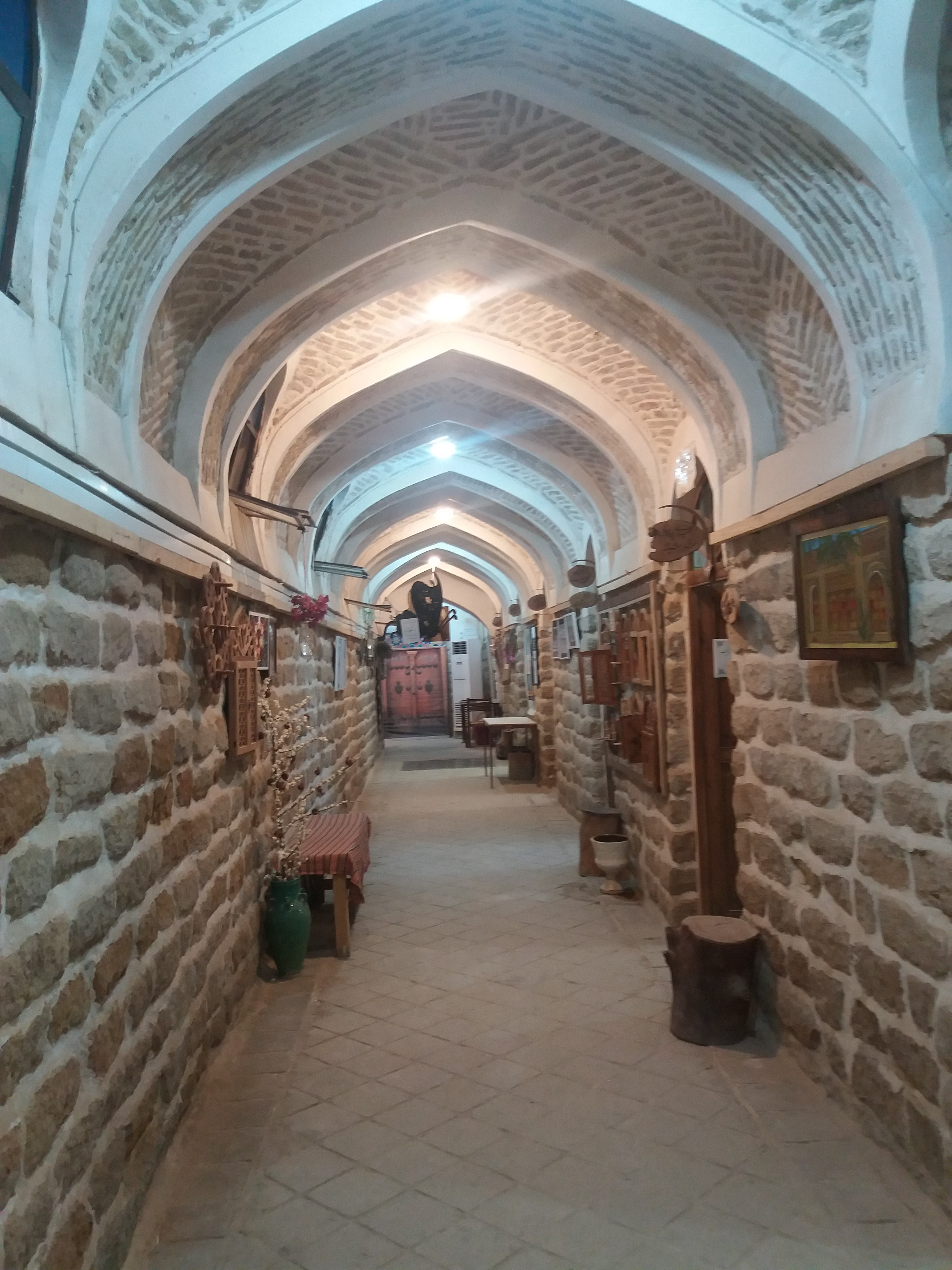 Afzal Caravanserai in Iranian Art and Civilization